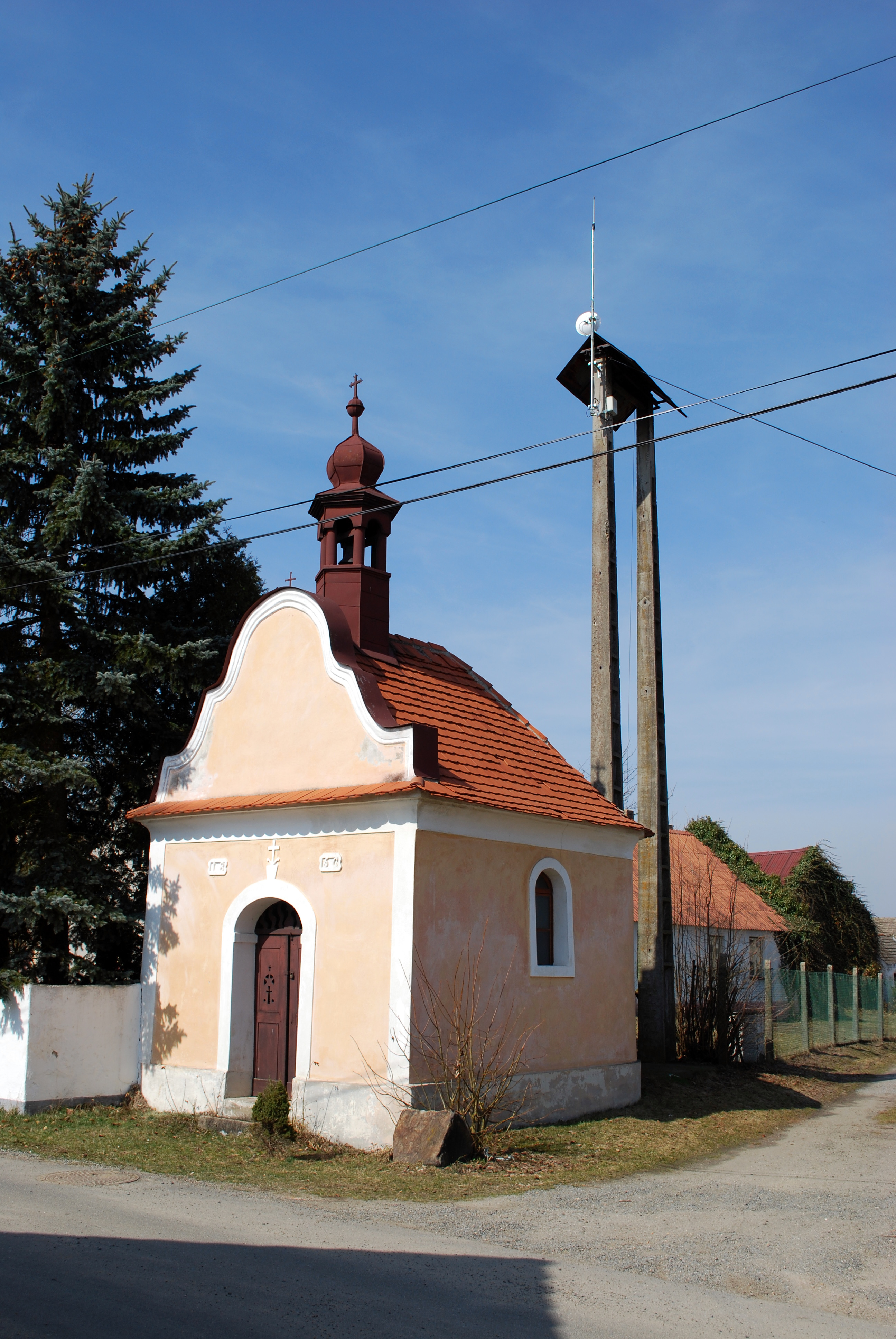 Vlkov village, Tábor District, Czech Republic. Chapel This photograph was taken within the scope of the 'Czech Municipalities Photographs' grant.